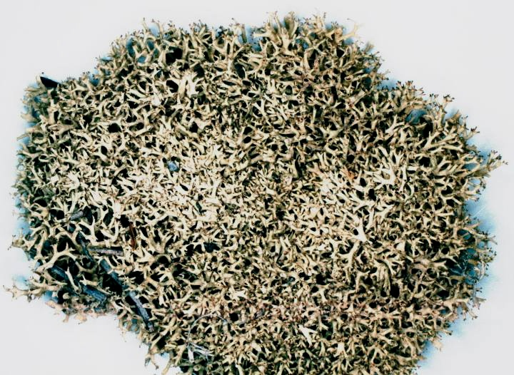 Cladonia uncialis (L.) F.H. Wigg., 1780 (photograph of a herbarium specimen) Growing in Cladina barrens in Jack Pine plains near Crumley Creek, Cheboygan County, Michigan, USA; collected and identified by Richard E. Riefner (No. 81-452, 14 Jul 1981); specimen is now in the Lichen Herbarium of the New York Botanical Garden.